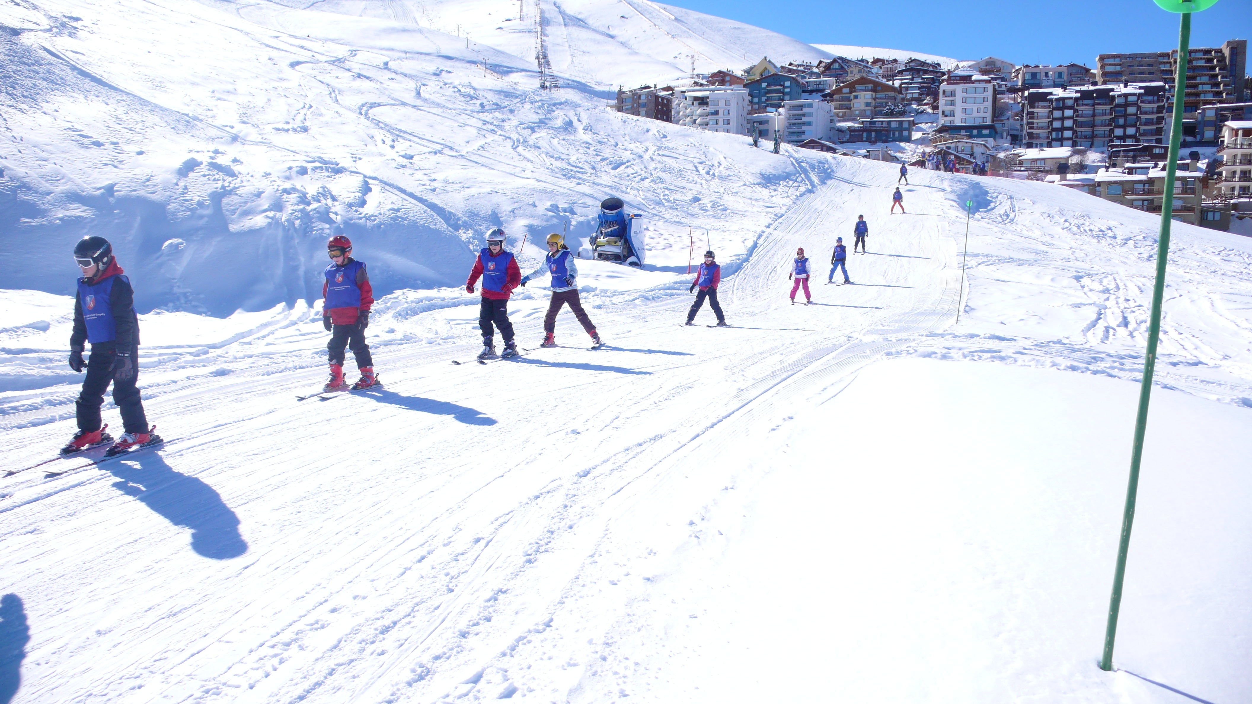 Elèves en classe de neige à la Parva